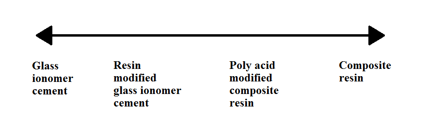 Diagram of GIC - composite resin spectrum of restorative materials used in dentistry